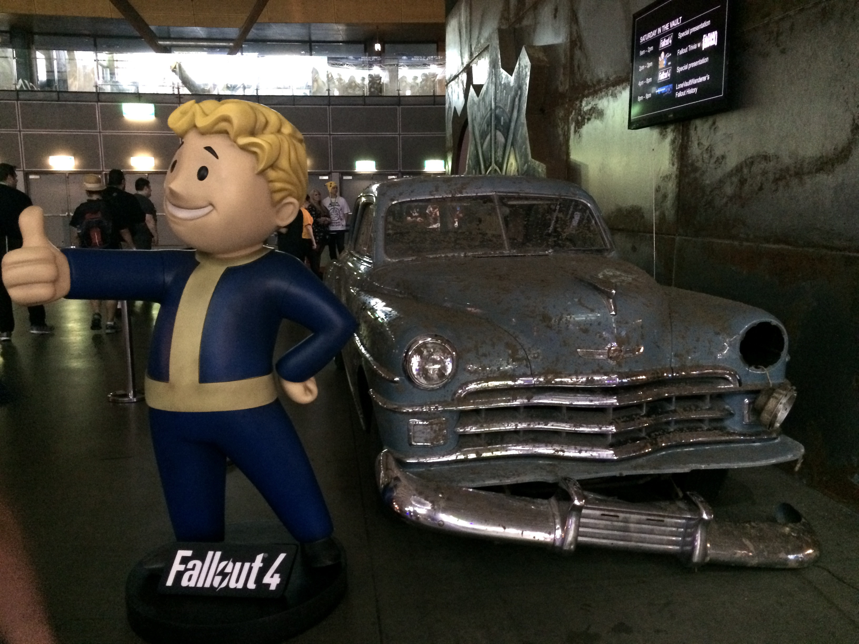 Bethesda / Fallout 4 Booth at the EB Games Expo 2015